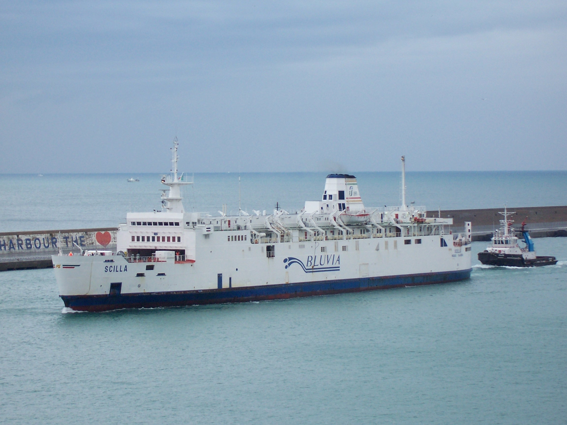 Train ferry Scilla arriving at Civitavecchia